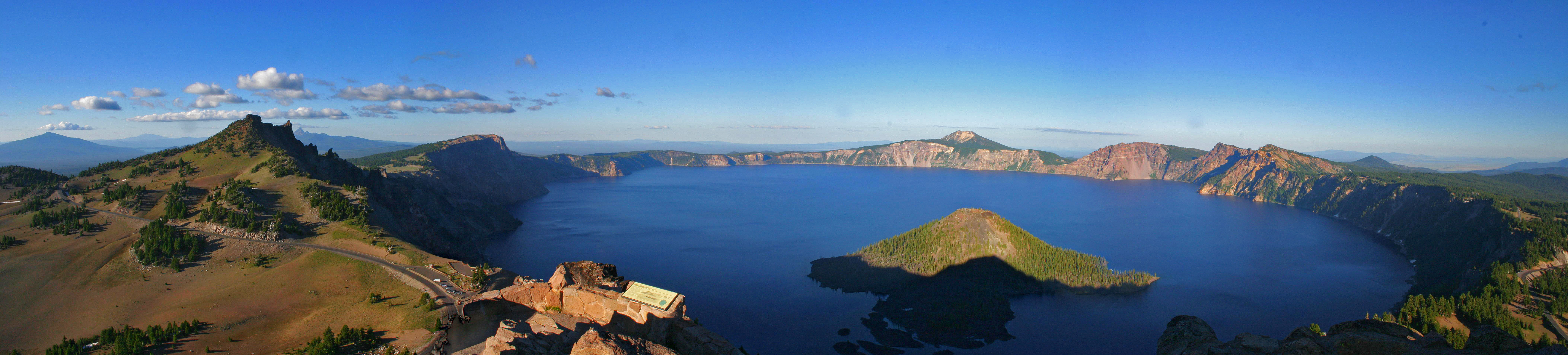 Panorama of Crater Lake from The Watchman.